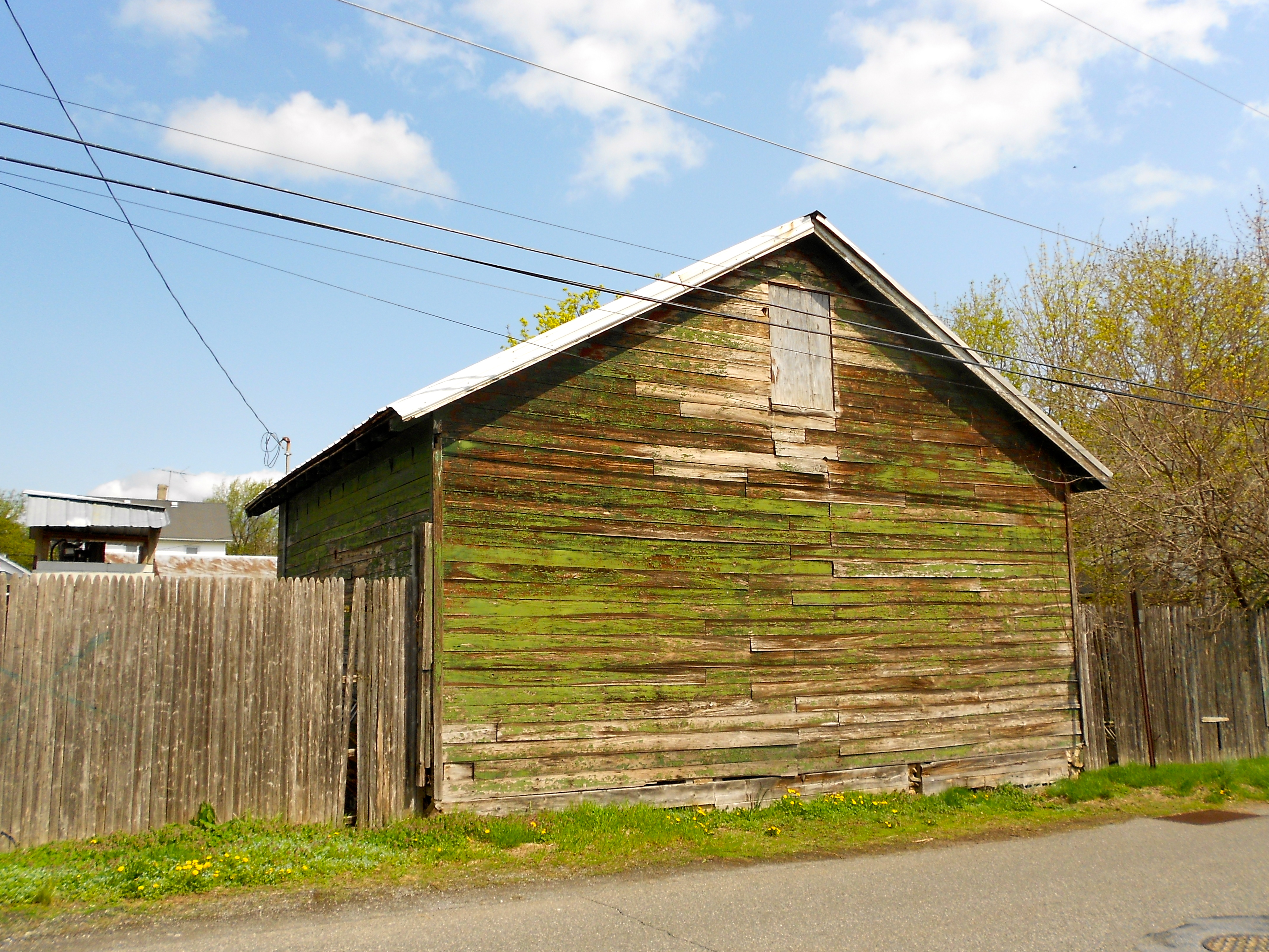 Shed in the census designated place of Toughkenamon, Chester County, Pennsylvania. It's located on Main Street, which is not a main street in the town.